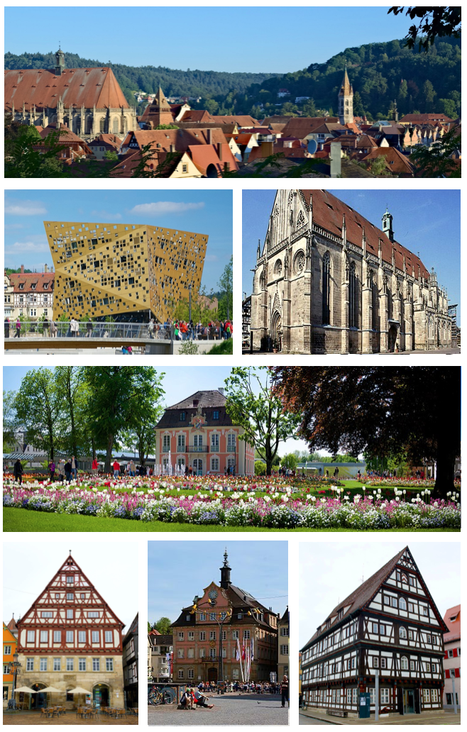 The image represents the main sights of the German City of Schwäbisch Gmünd and fives a general overview of the city and its specific cultural style.